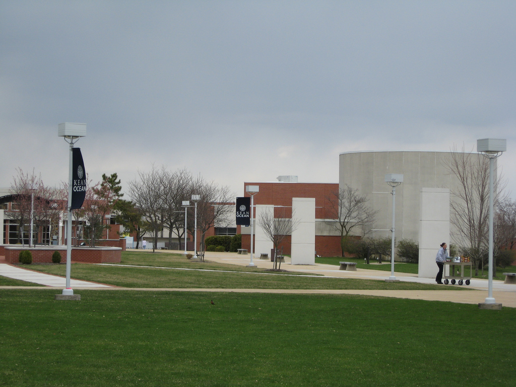 Parts of the Robert J. Novins Planetarium and Arts and Community Center at Ocean County College, in Toms River, New Jersey.